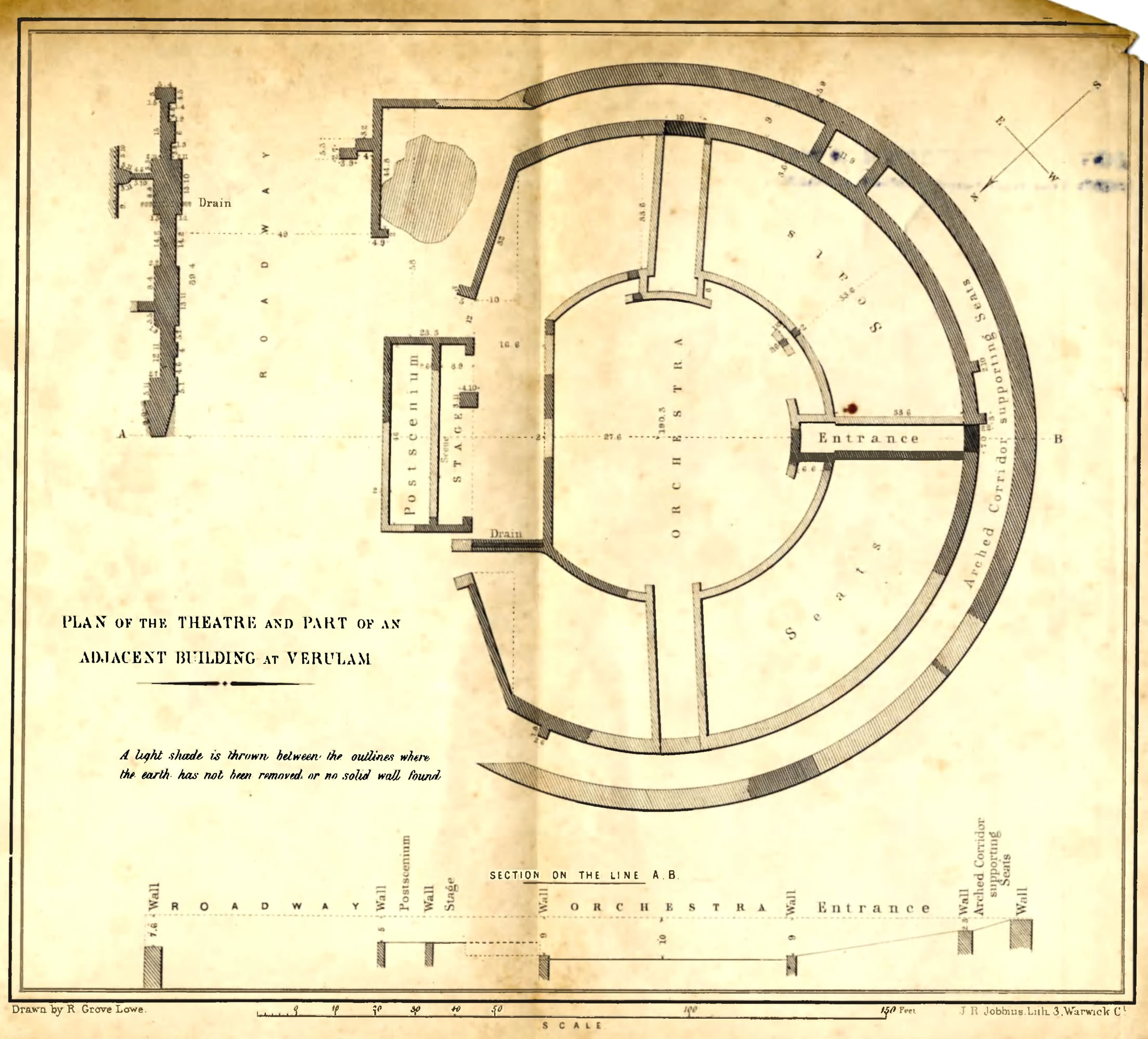 Plan of the the Roman theatre at Verulamium, as published in 1848